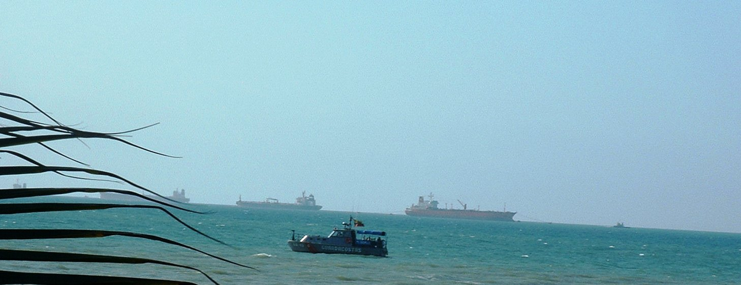 Balao